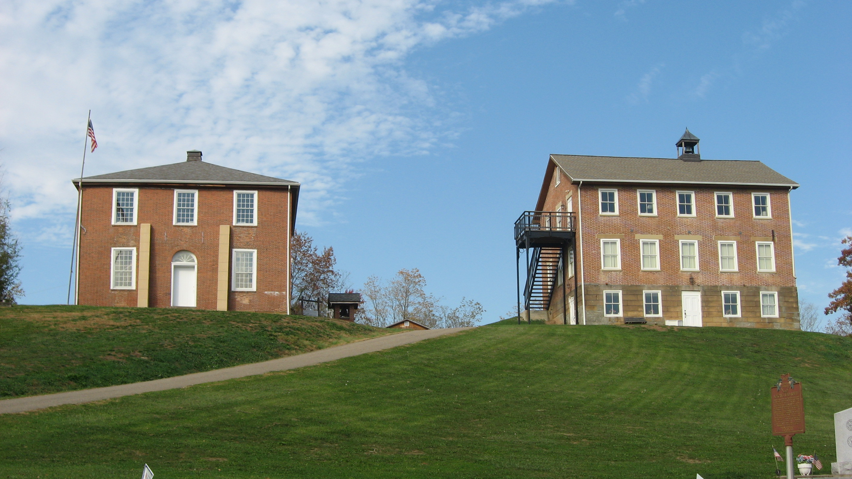 Southern side of the Old Meigs County Courthouse and Chester Academy, located along State Route 248 near Chester in Meigs County, Ohio, United States. Built in 1823 and 1839, they are listed together on the National Register of Historic Places.